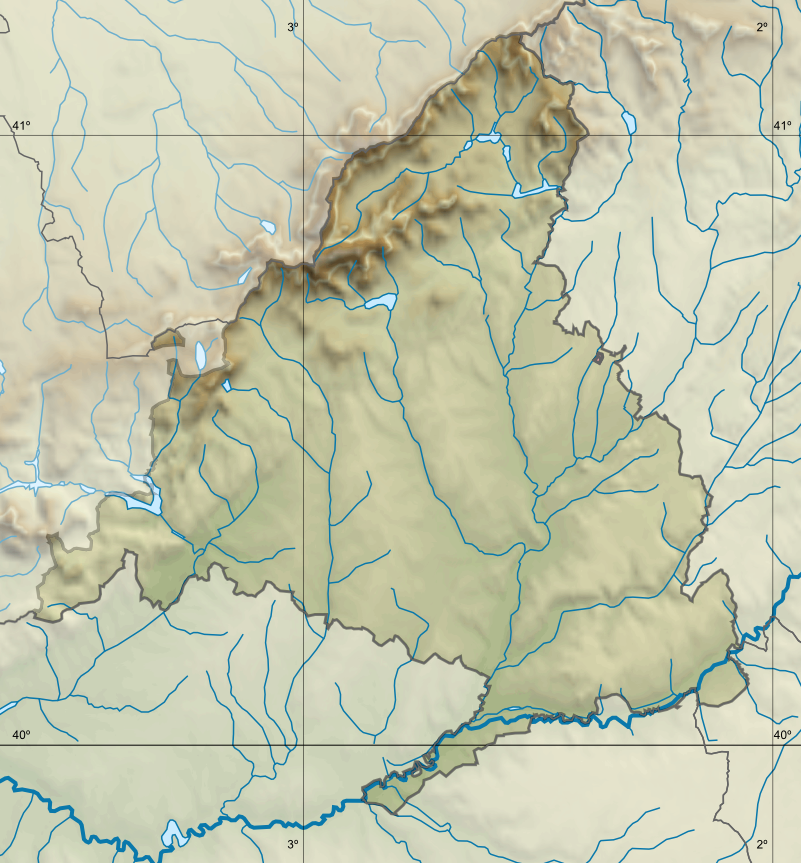 Location map relief of Community of Madrid Equirectangular projection, N/S stretching 130 %. Geographic limits of the map: N: 41.221046° N S: 39.804255° N W: 4.647491° W E: 2.942500° W